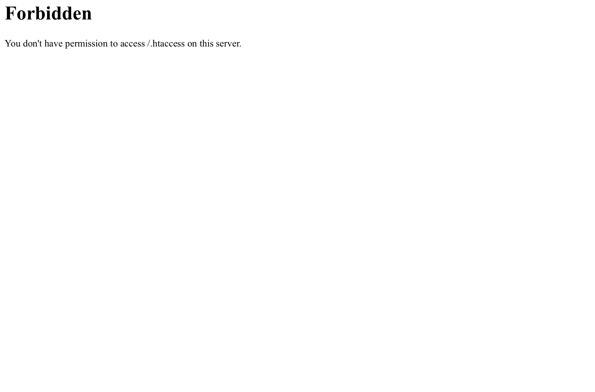 English Wikipedia 403 error. Appears to have replaced the "very bad request" one sometime between late 2016 and early 2017.